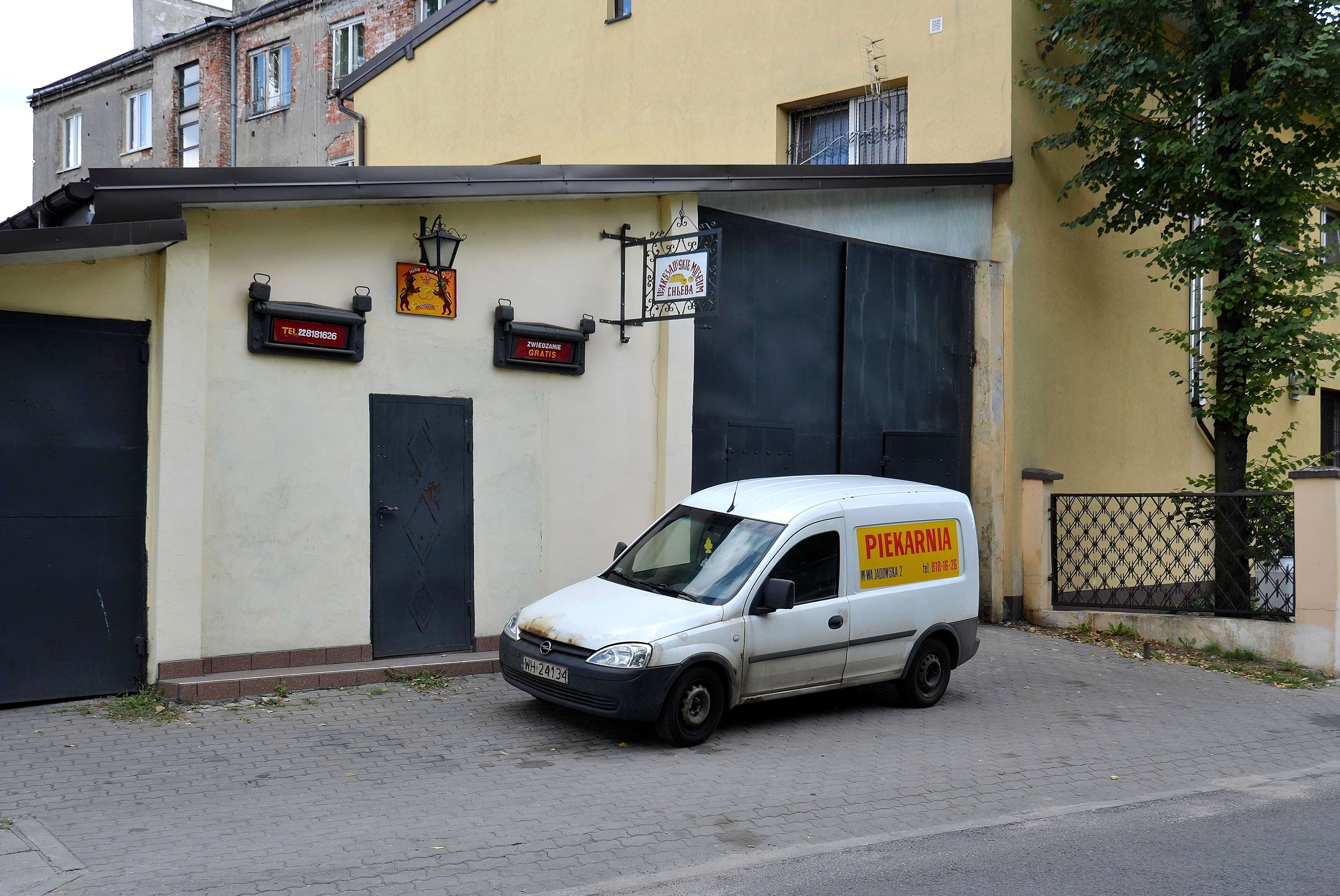 Entrance to the Bread Museum at 2 Jadowska Street in Warsaw